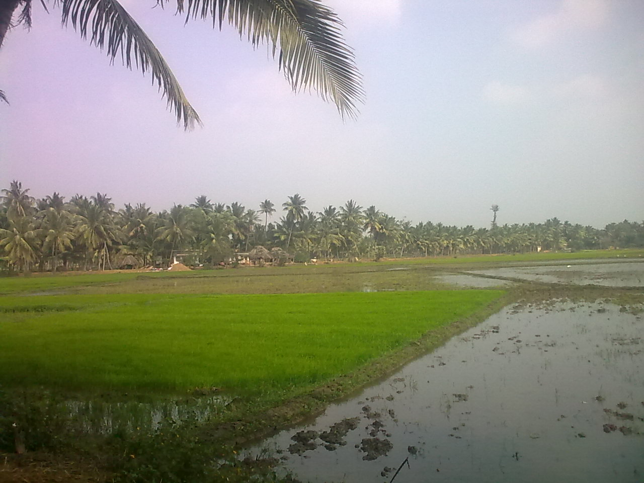 Anathavaram(mattaparthivari palem)